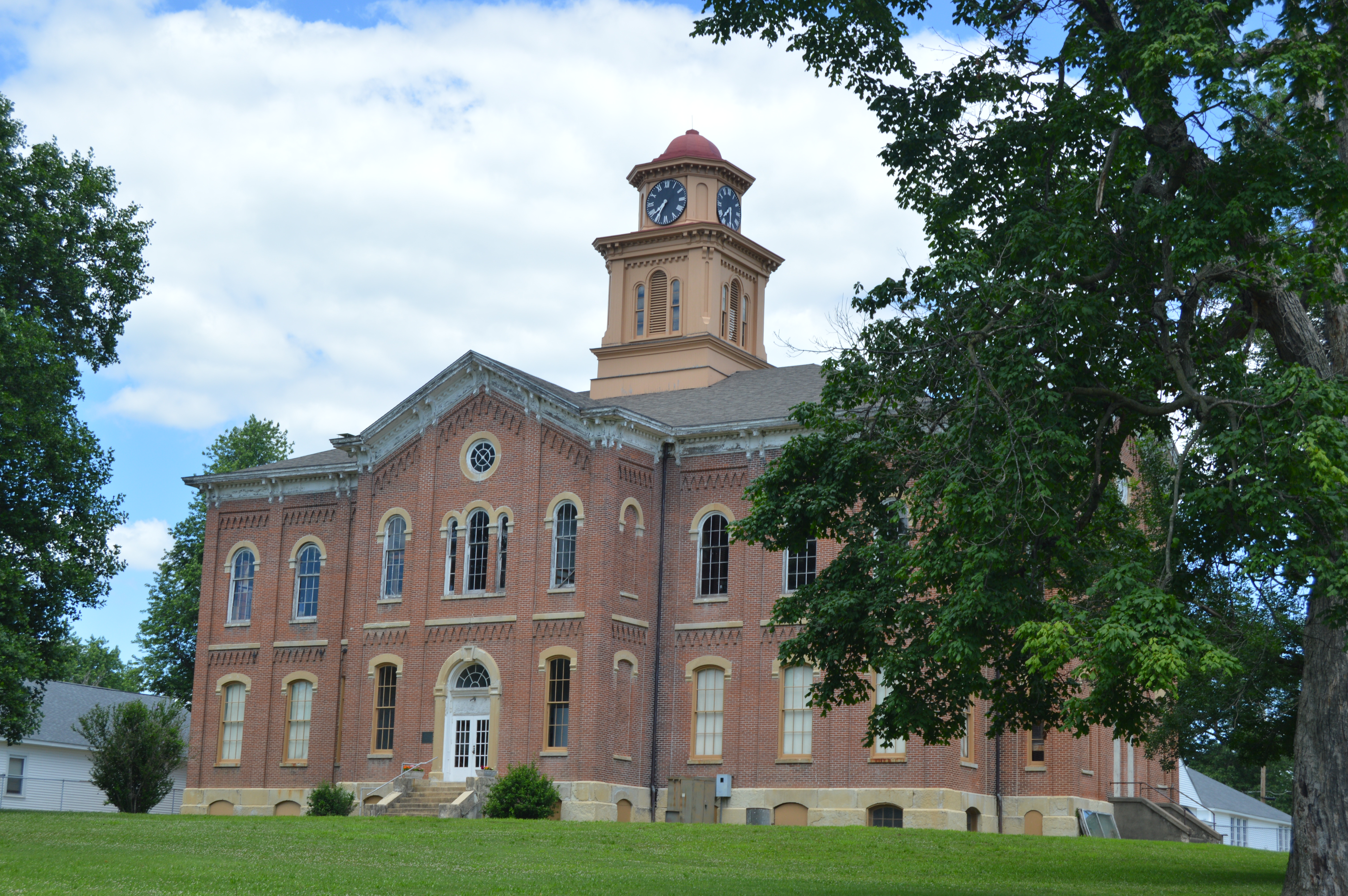 Front and eastern side of the Pittsfield East School, located at 400 E. Jefferson Street in Pittsfield, Illinois, United States. Built in 1861, it is listed on the National Register of Historic Places.